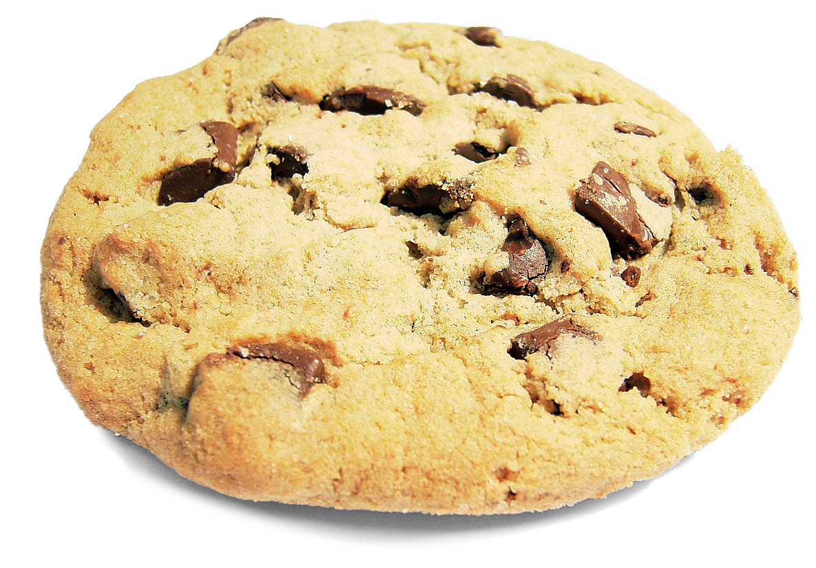 A chocolate-chip cookie.